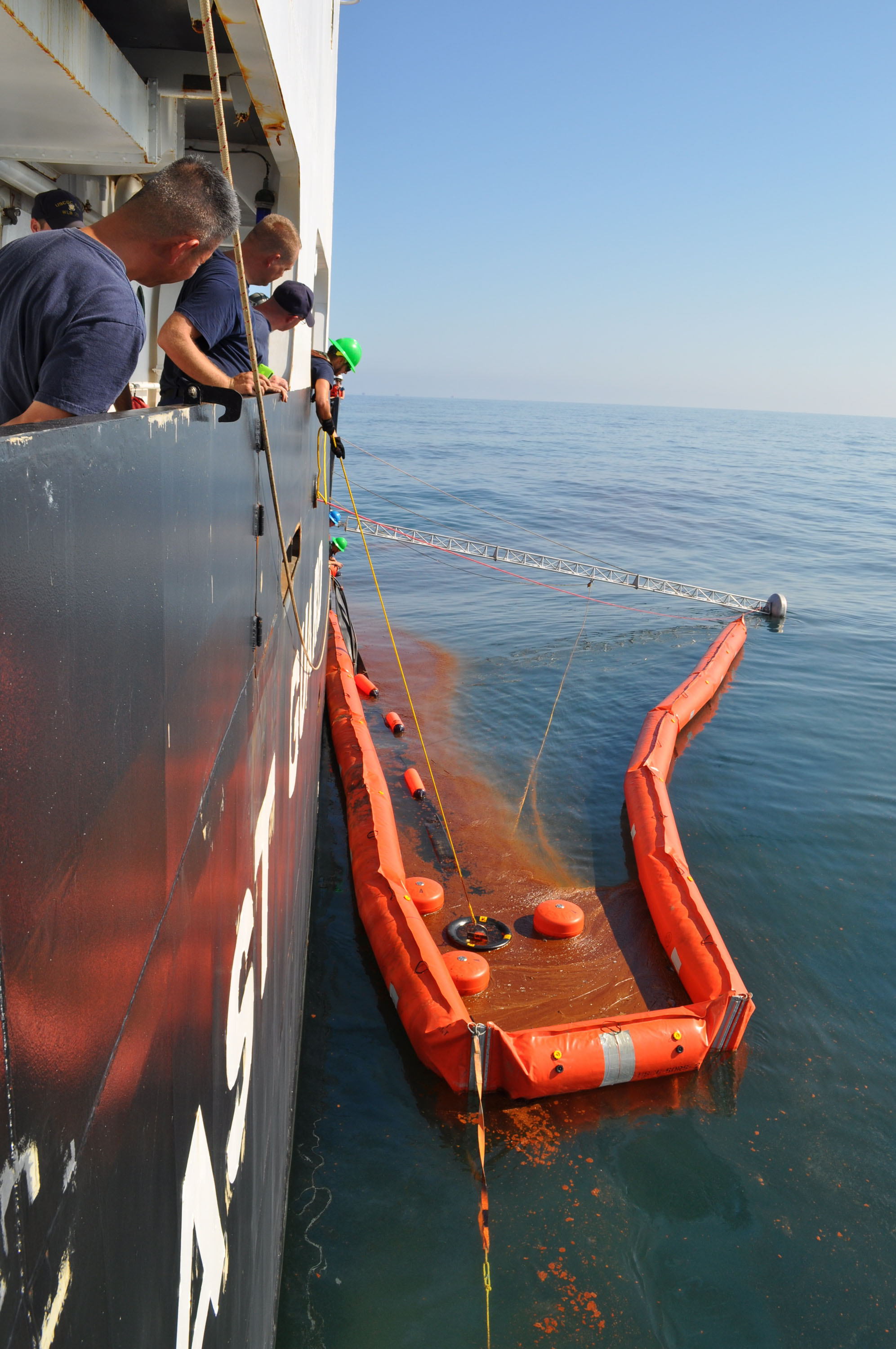 100505-G-4590R-001 Oak oil skimming response GULF OF MEXICO - Crewmembers assigned to the Coast Guard Cutter Oak, homeported in Charleston, S.C., place the Weir Skimmer into the apex of the boom, during oil skimming operations. The Oak is assisting with the Deepwater Horizon oil spill response. U. S. Coast Guard photo by Ensign Jason Radcliffe.